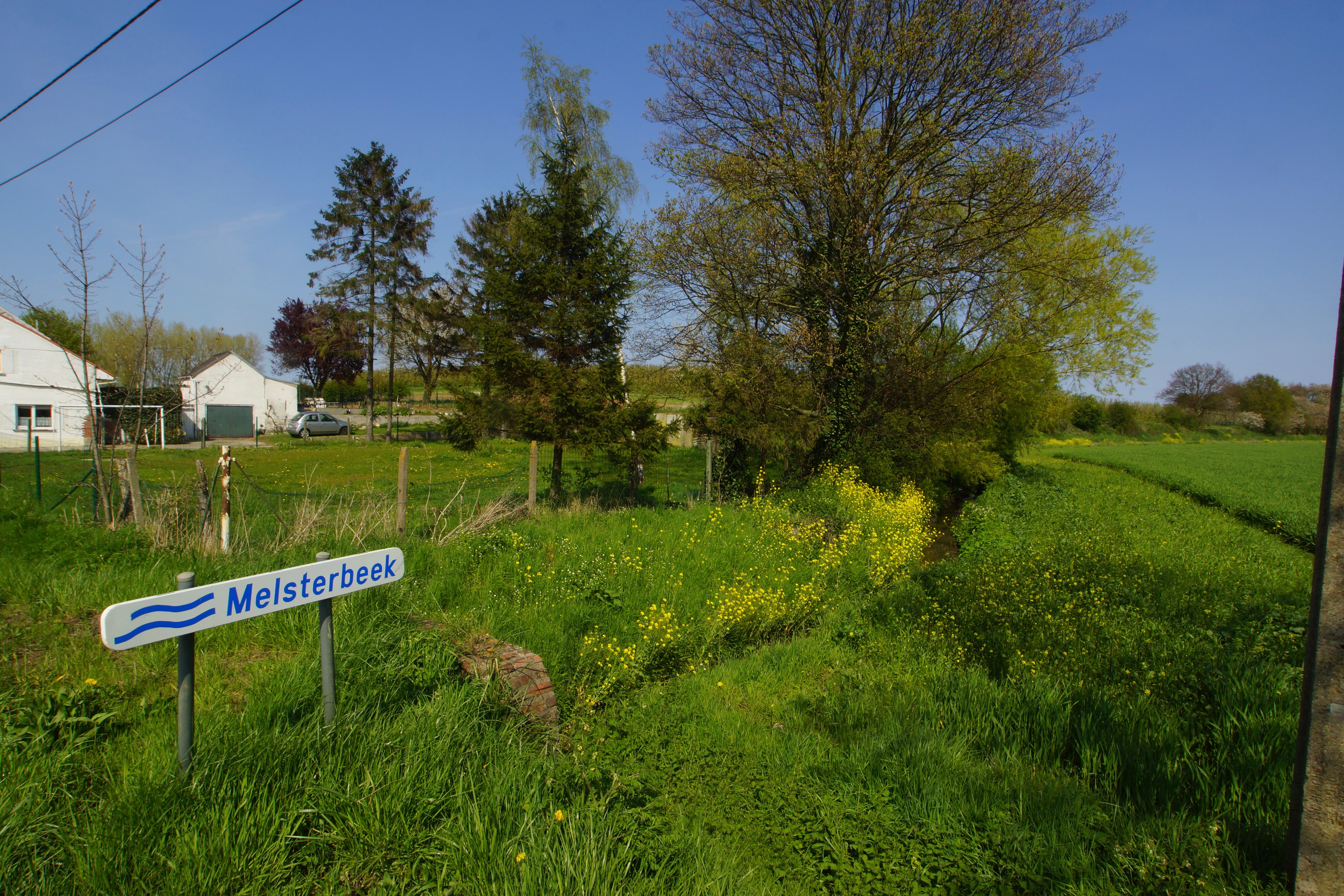 Gingelom (Mielen-boven-Aalst), Belgium: The river Melsterbeek